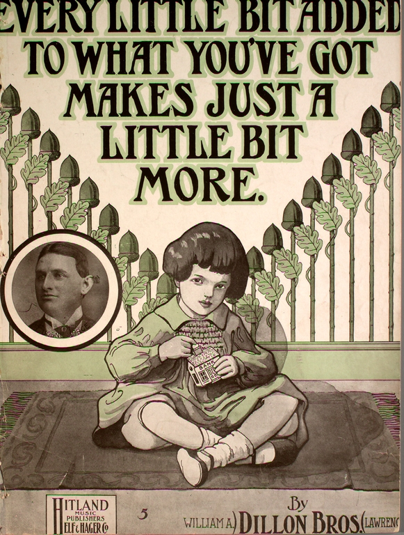 Cover of sheet music to minor 1907 hit, Every Little Bit Added To What You've Got Makes Just a Little Bit More